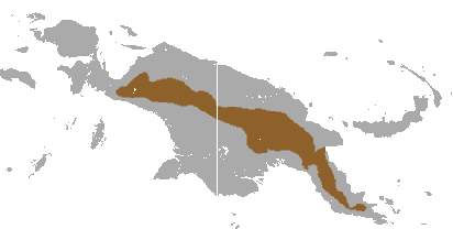 Coppery Ringtail Possum (Pseudochirops cupreus) range